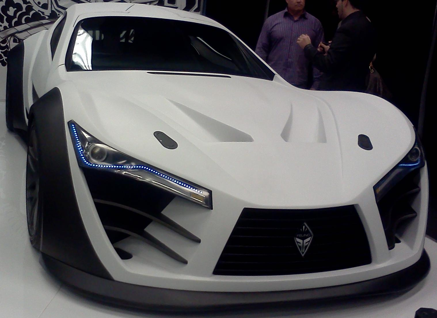 Felino cB7 photographed in Montreal, Quebec, Canada at the 2014 Montreal International Auto Show.